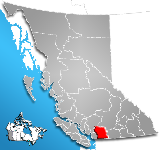 Location of Fraser Valley Regional District, British Columbia